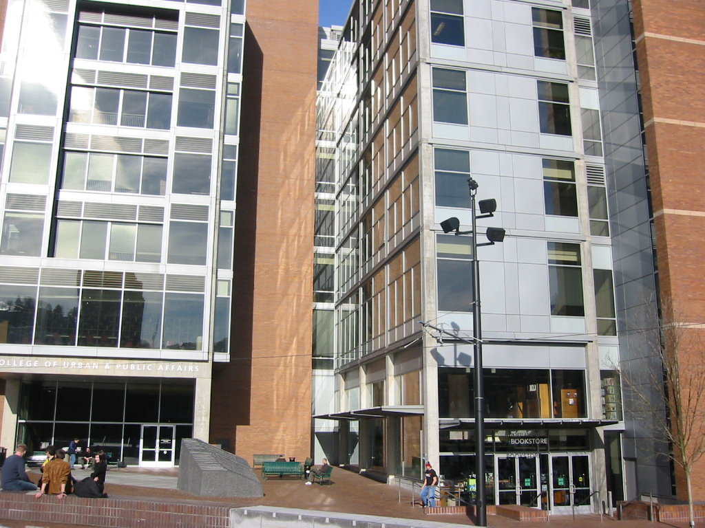 Portland State University College of Urban & Public Affairs